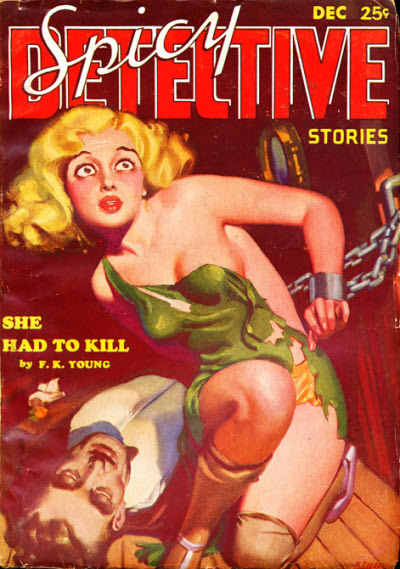 Spicy Detective Stories, December 1934